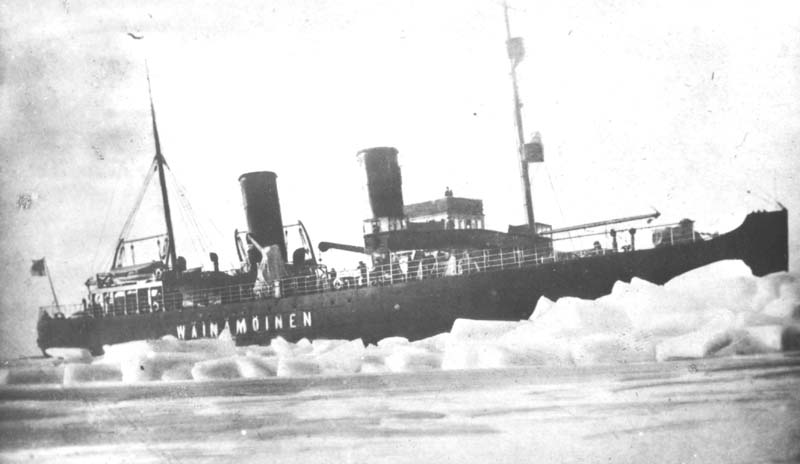 Finnish icebreaker Wäinämöinen, nowadays known as Suur Töll and museum in Tallinn, Estonia.